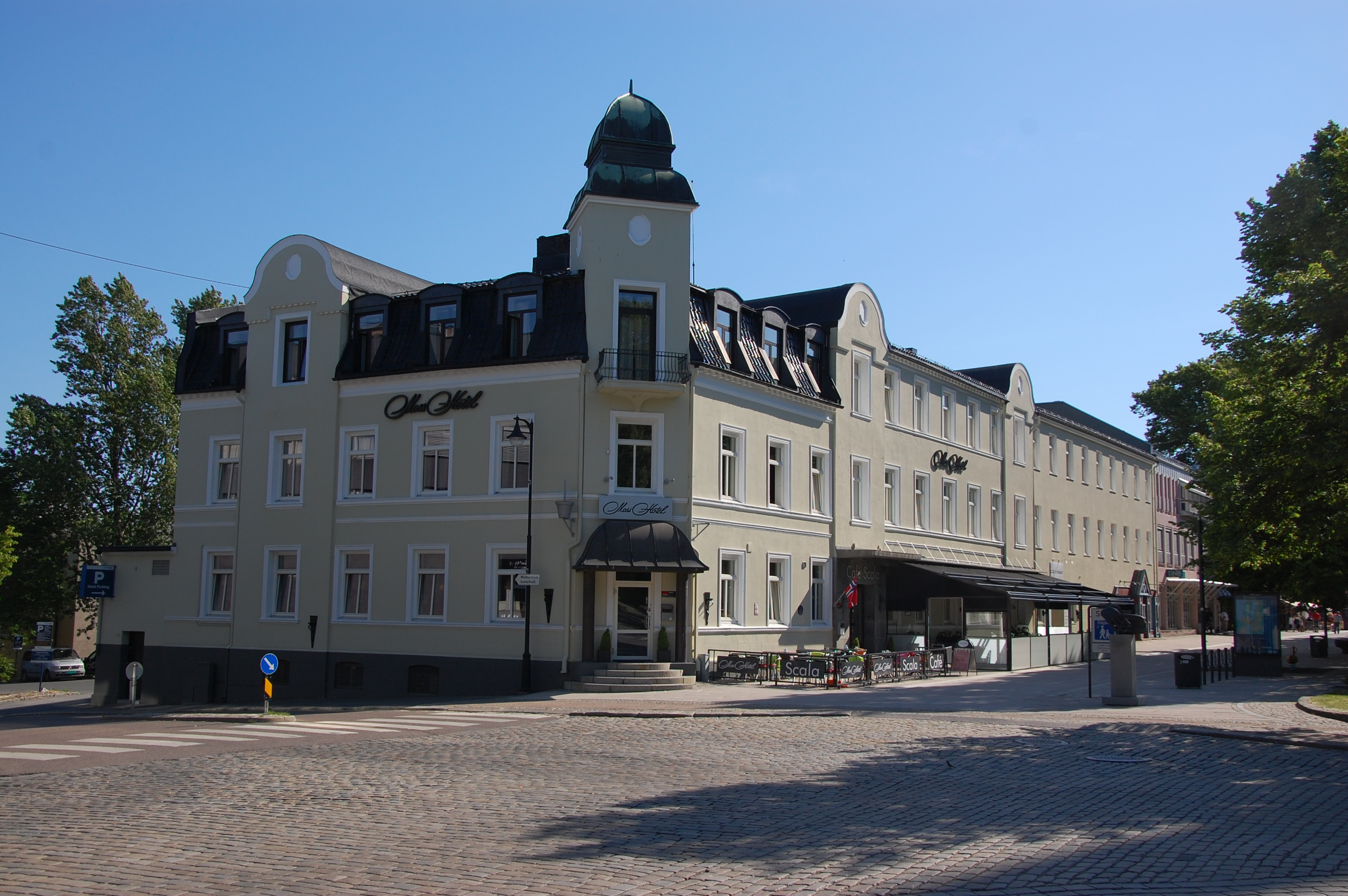 Moss Hotel in Moss, Norway.